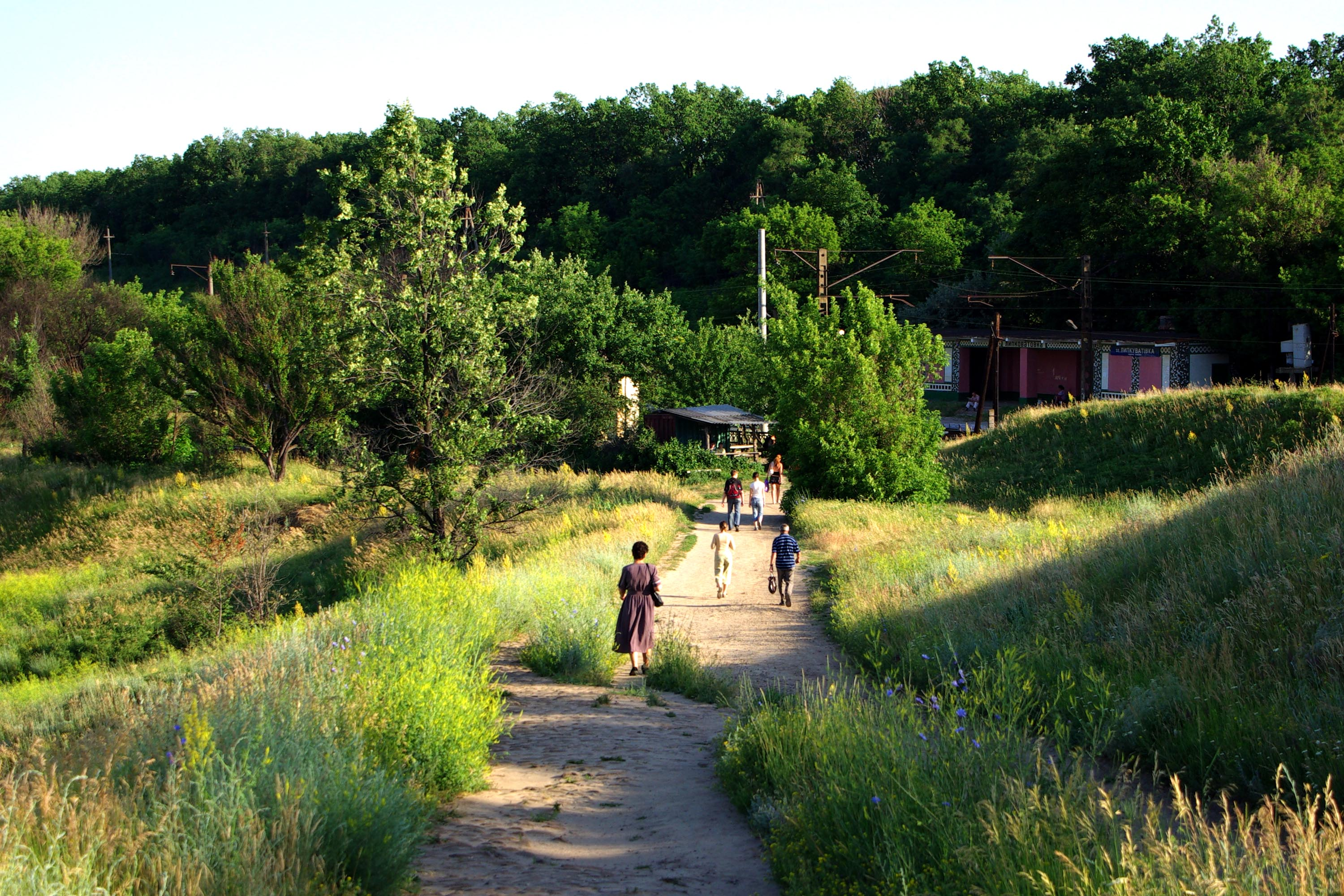 View from the village of Lypkuvativka to Lypkuvativka railway stop, Kharkiv Oblast, Ukraine